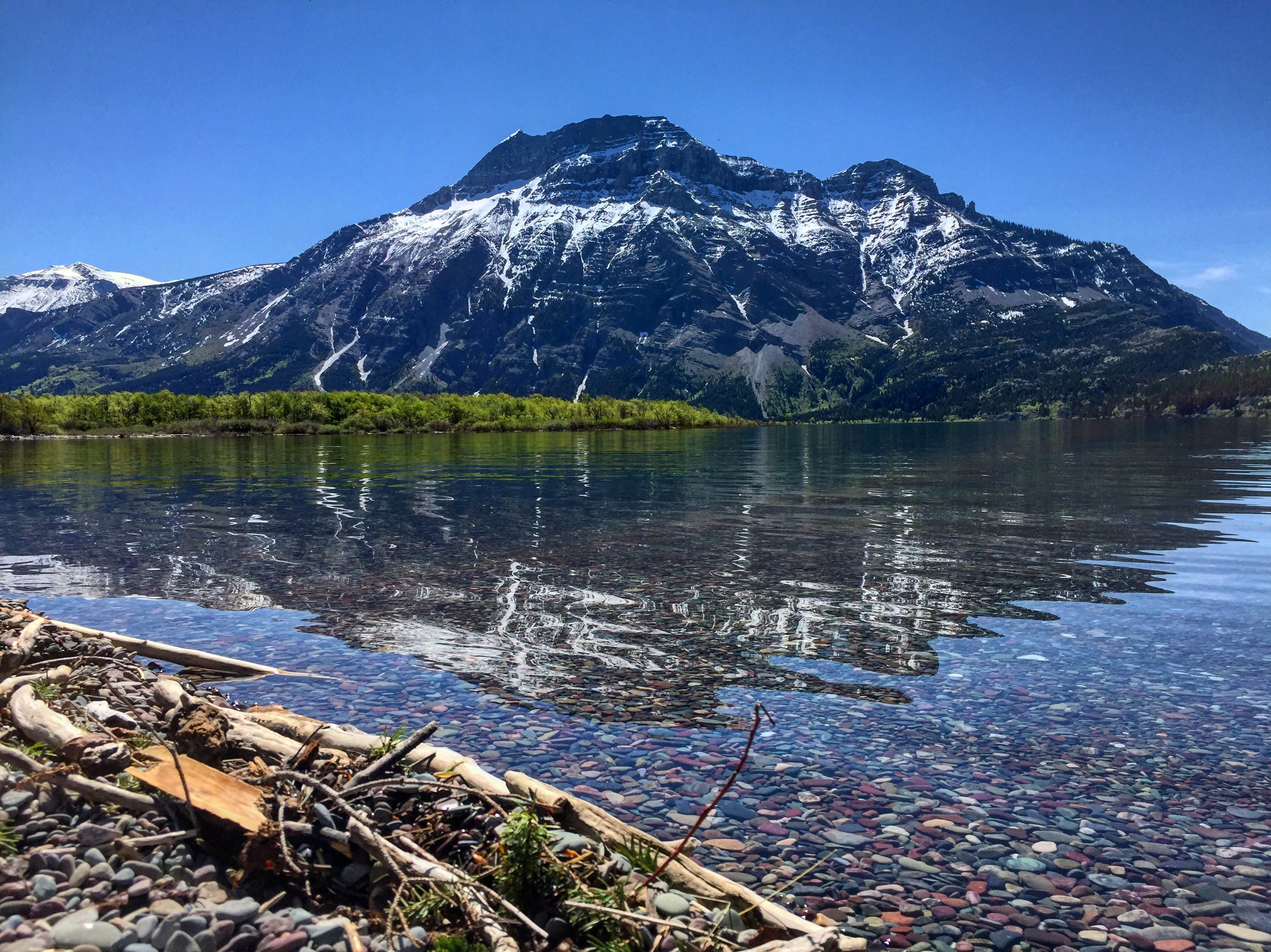 Summer day in Waterton National Park Q902778